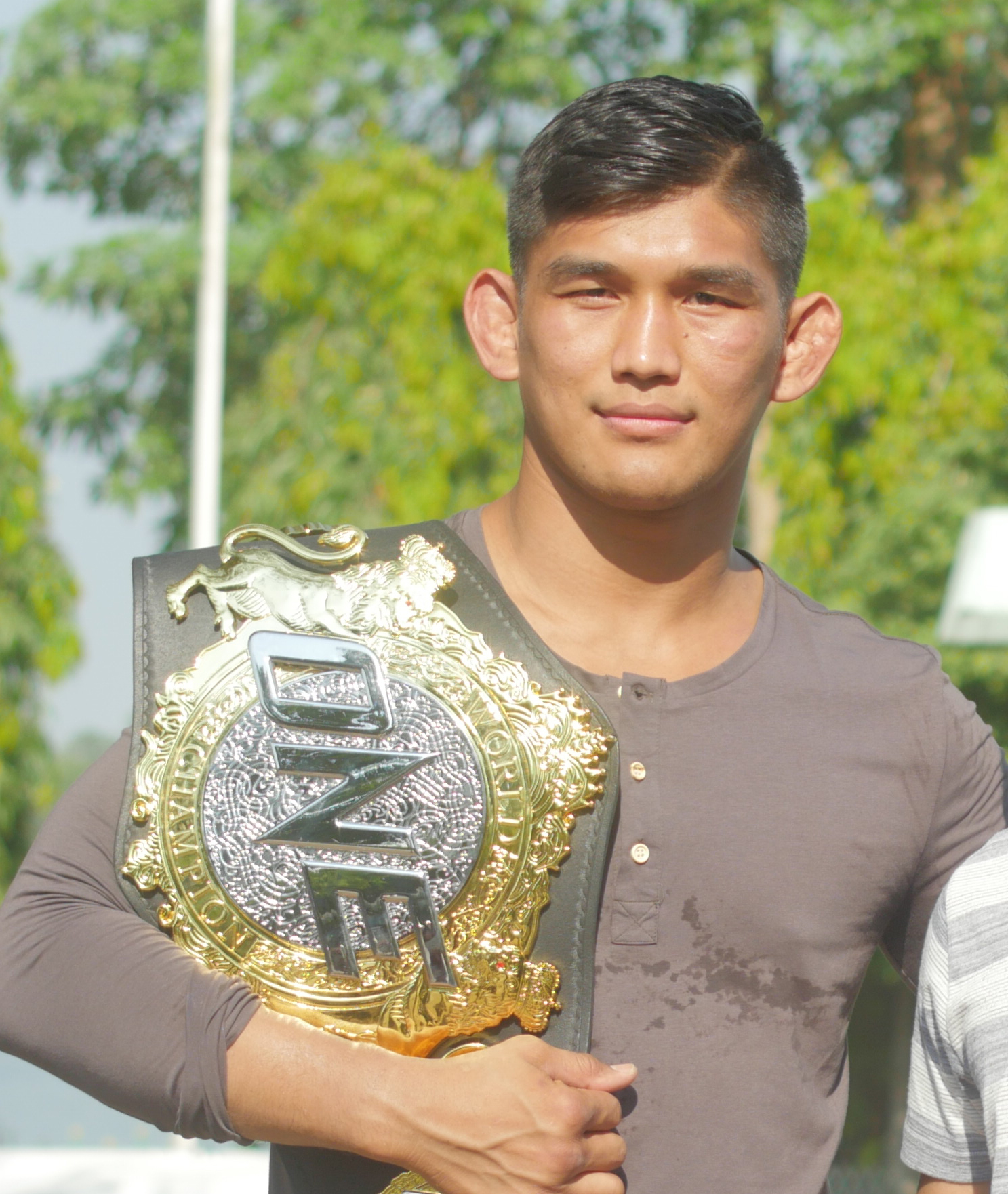 Aung La N Sang with ONE Championship belt Аҧсшәа: အောင်လအန်ဆန်း